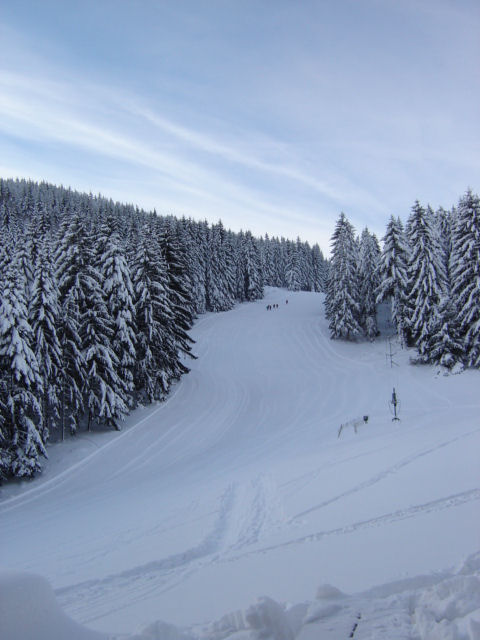 Holy diel